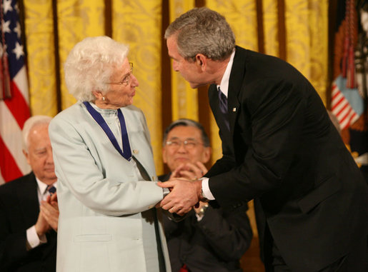 President George W. Bush congratulates Ruth Johnson Colvin after presenting her with the Presidential Medal of Freedom on Friday, December 15, 2006.